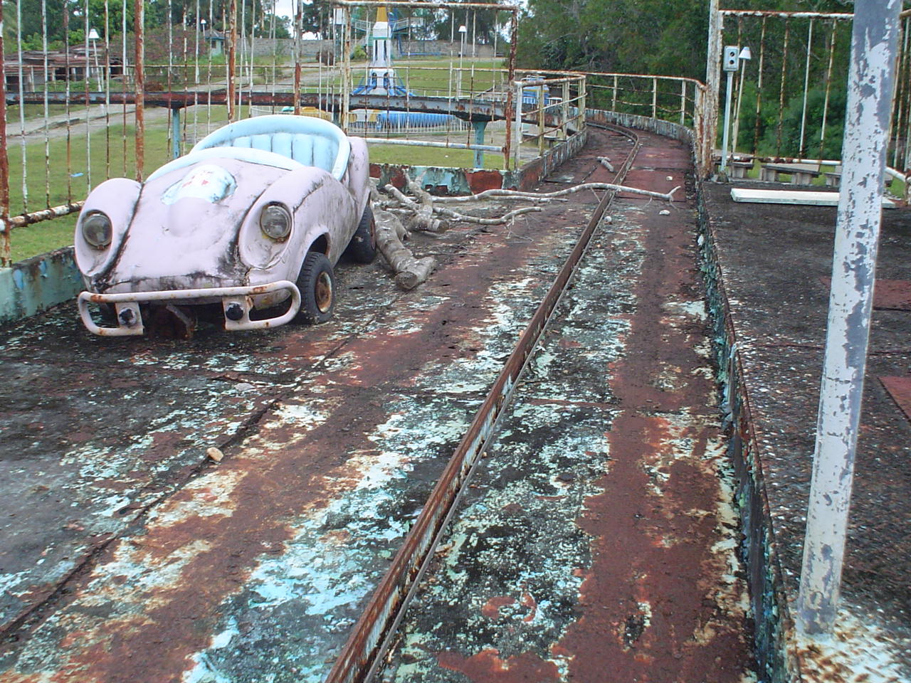 Near Chake Chake, Pemba Island, Tanzania. Derelict amusement park on Pemba Island, Tanzania